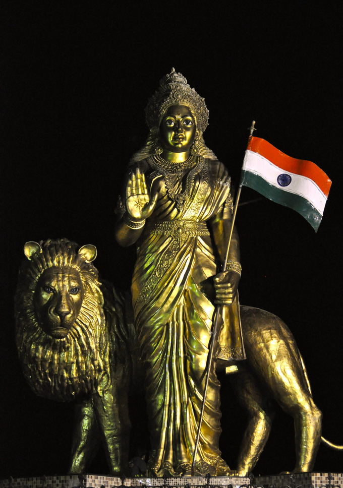 A statue of Bharat Mata on the shore of Yanam beach in Puducherry